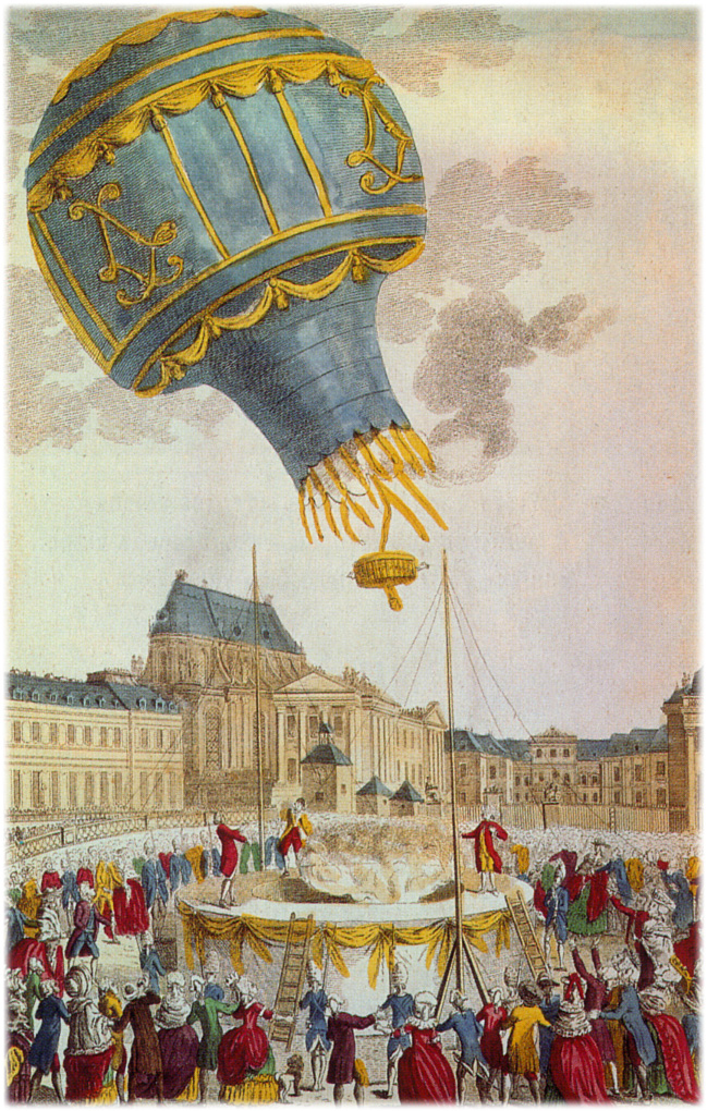 The first un-manned hot-air balloon, designed by the Montgolfier brothers, takes off from Versailles, on September 19, 1783.